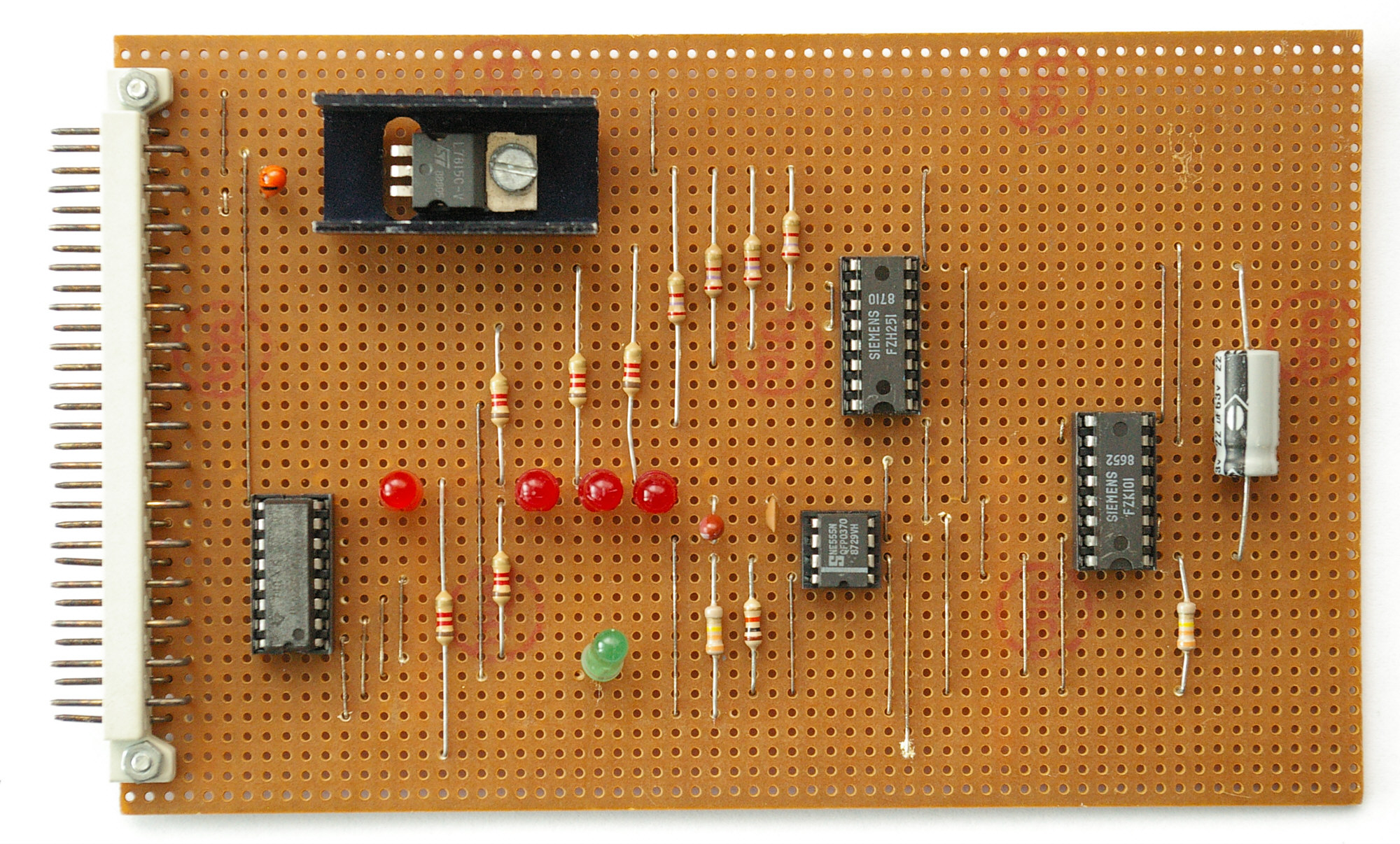 A stripboard, an electronics prototyping board characterized by a 0.1 inch (2.54 mm) regular (rectangular) grid of holes. The photo shows the typical arrangement of components in 90 degrees angle to the copper strips at the bottom side of the board.